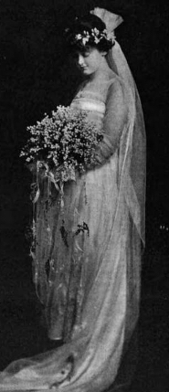 A young white woman standing in a wedding gown, holding a large bouquet.